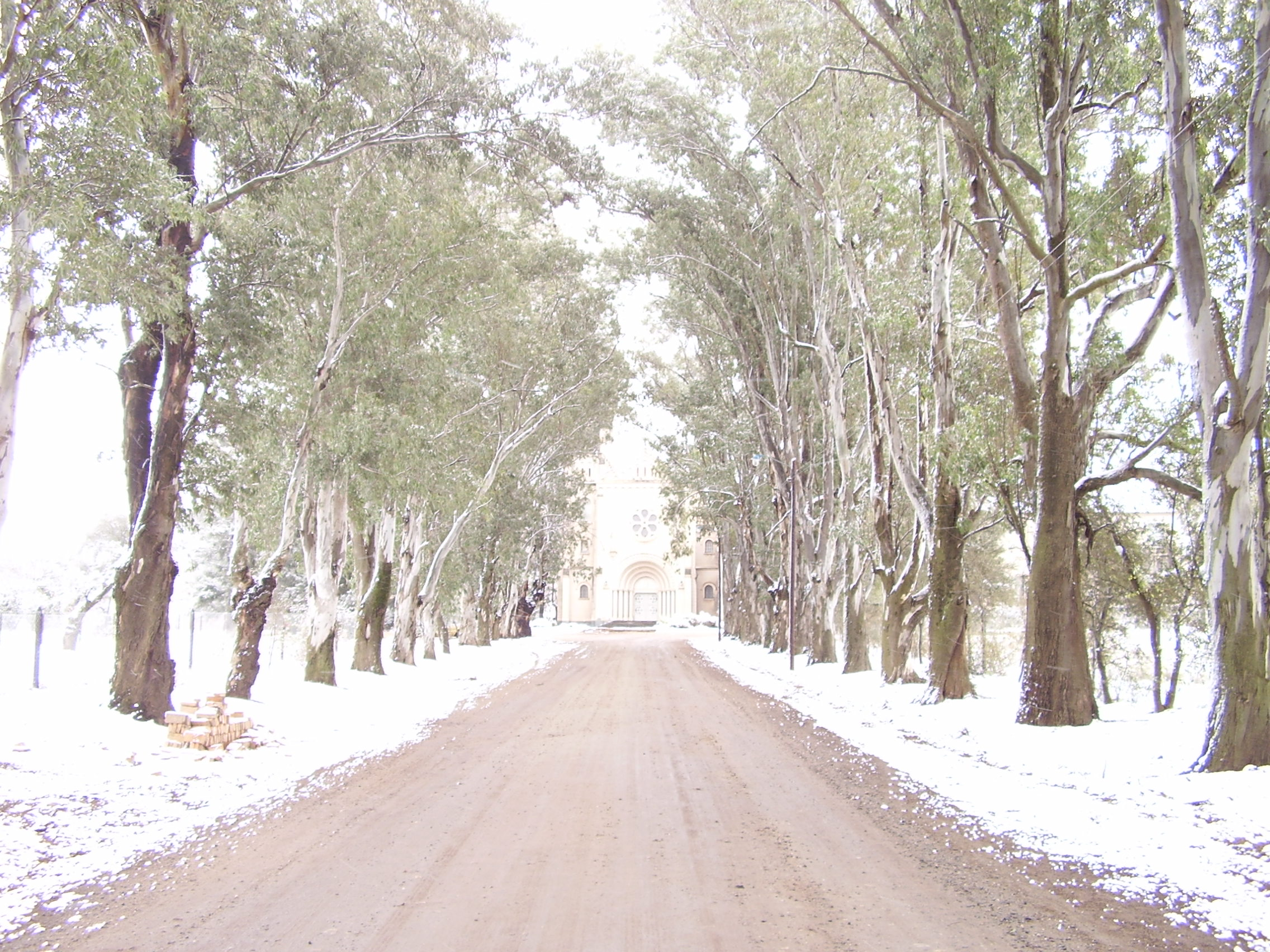 San Alfonso Convent with snow 2. Villa Allende, Córdoba